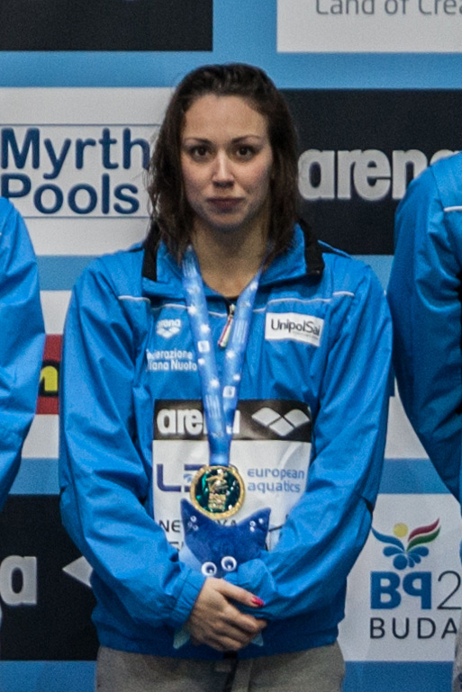 Swimmer Silvia Di Pietro wearing the gold medal she won at the 2015 European Short Course Swimming Championships in Netanya